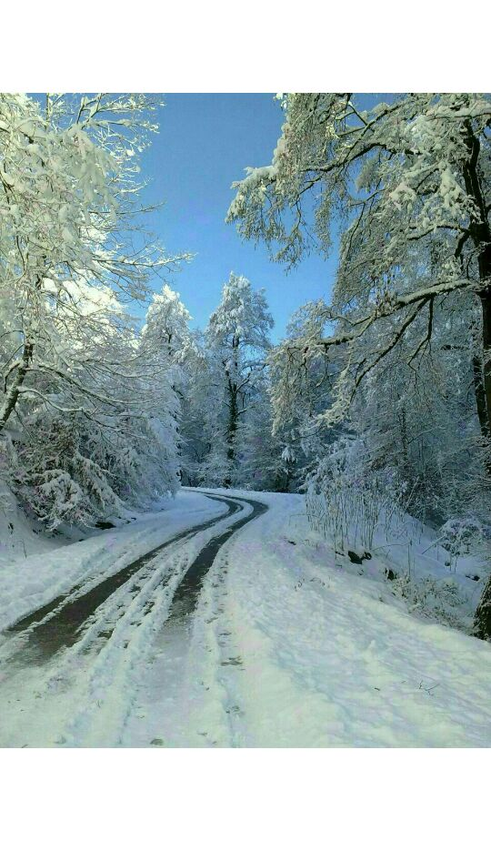 Snowy road